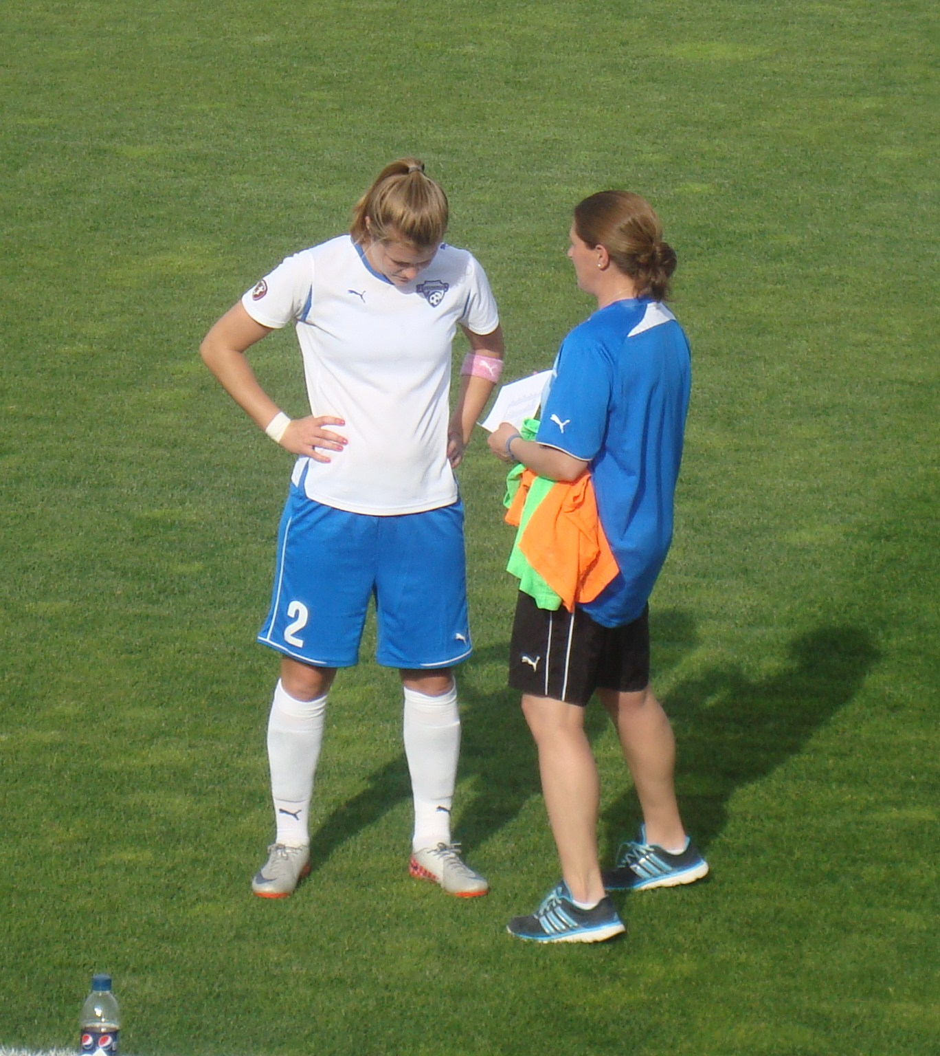 This is an image of Katie Schoepfer, #2 for the Boston Breakers talking pre game with head coach Lisa Cole before the exhibition game against DC United women's team.